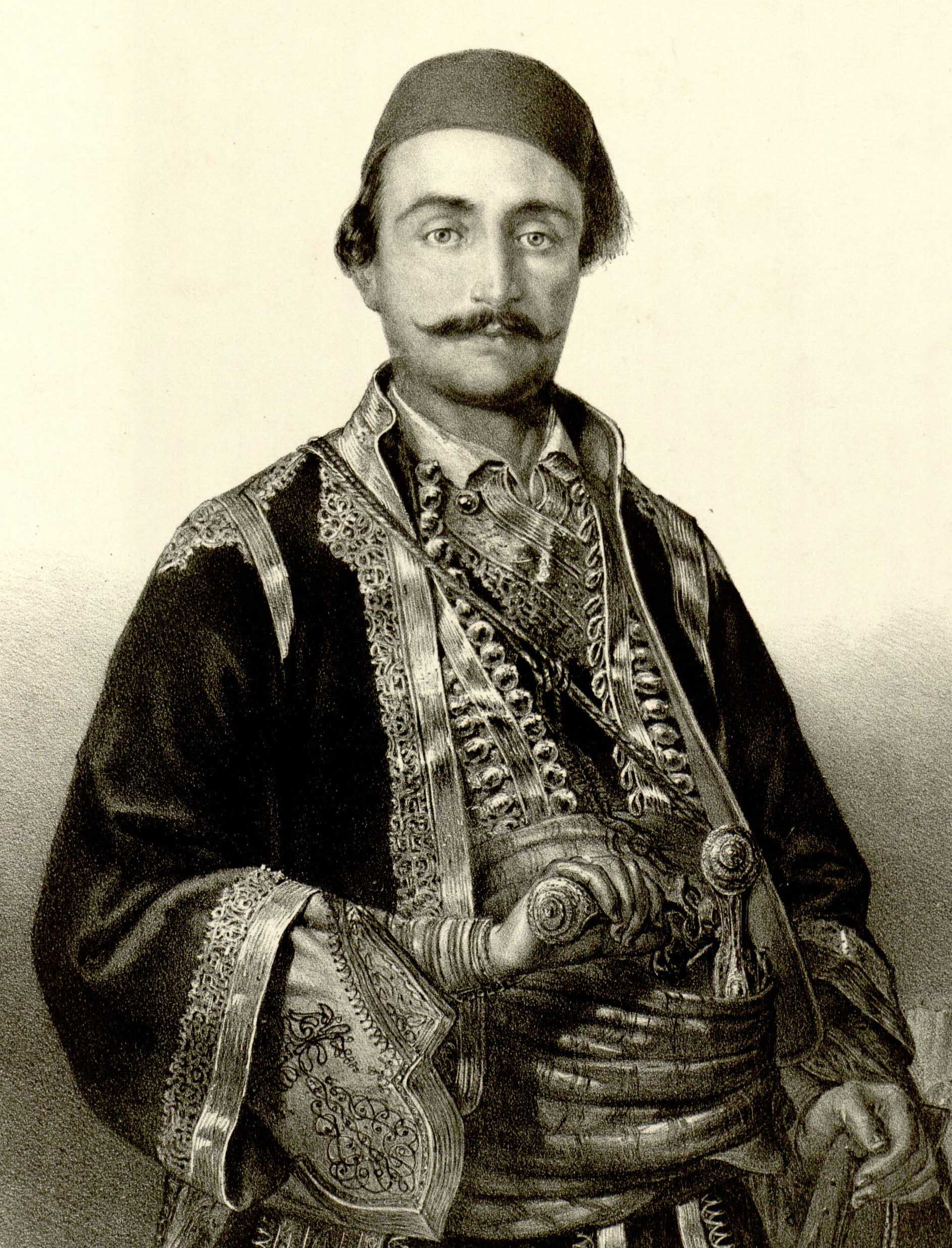 Portrait of Hajduk Veljko, lithograph by Anastas Jovanović, 1852.